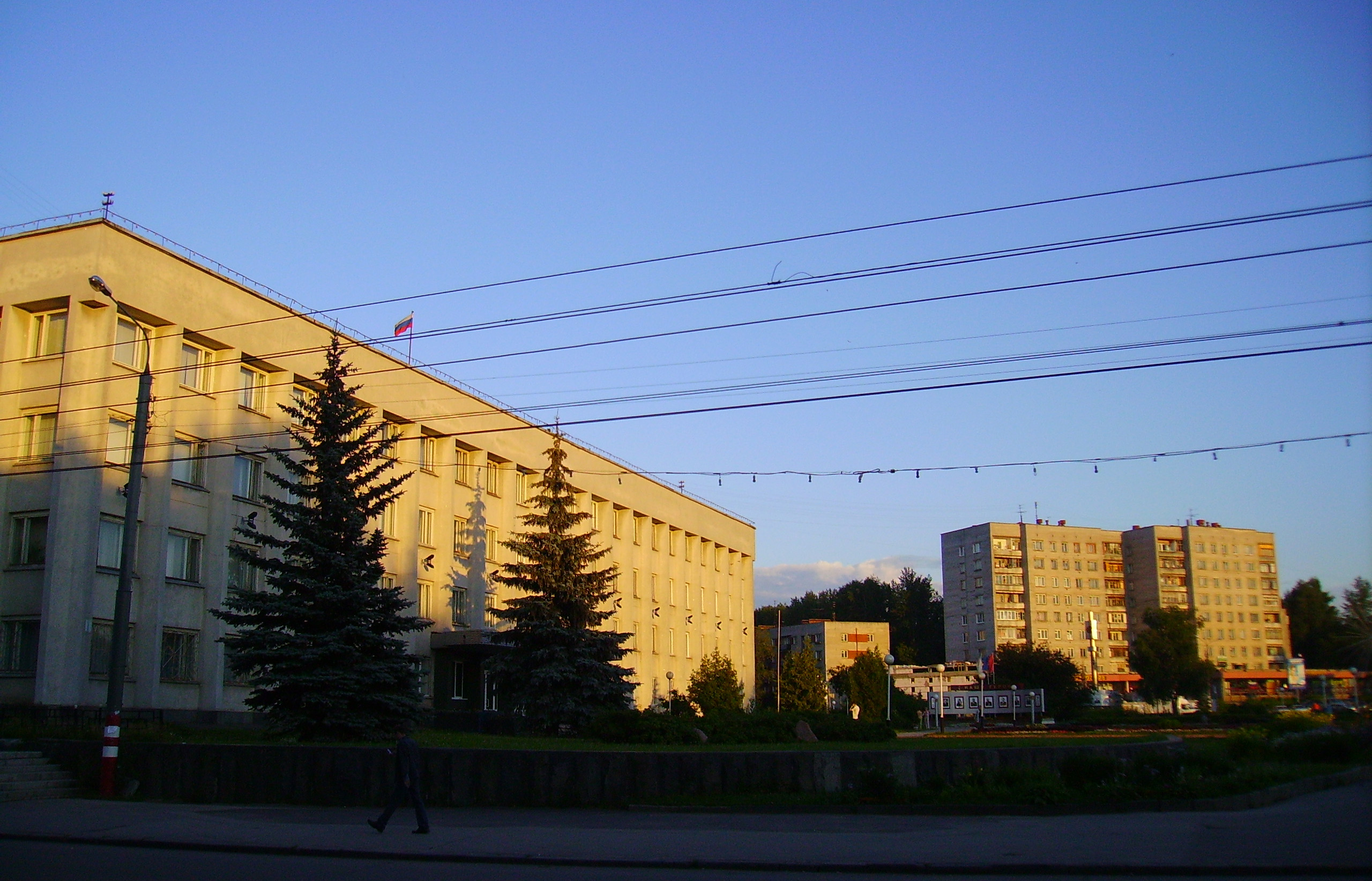 Sovetskaya Square is a centre of Sovetsky District